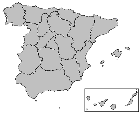 Map of the Spanish division in 1720.